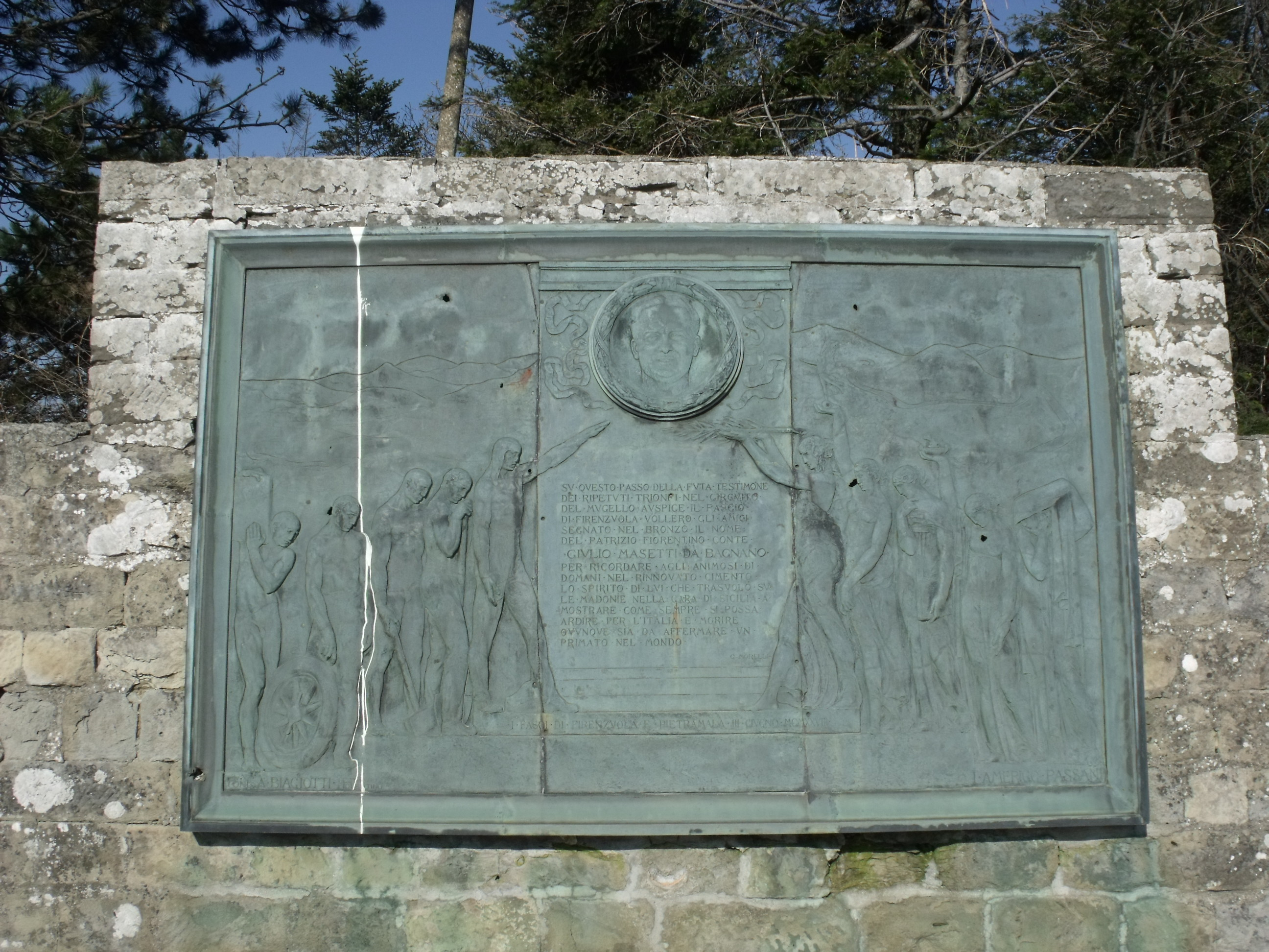 Monument for Giulio Masetti on the Futa Pass in Firenzuola, Mugello, Province of Florence, Tuscany, Italy. Date on Plaque: 3rd June 1928